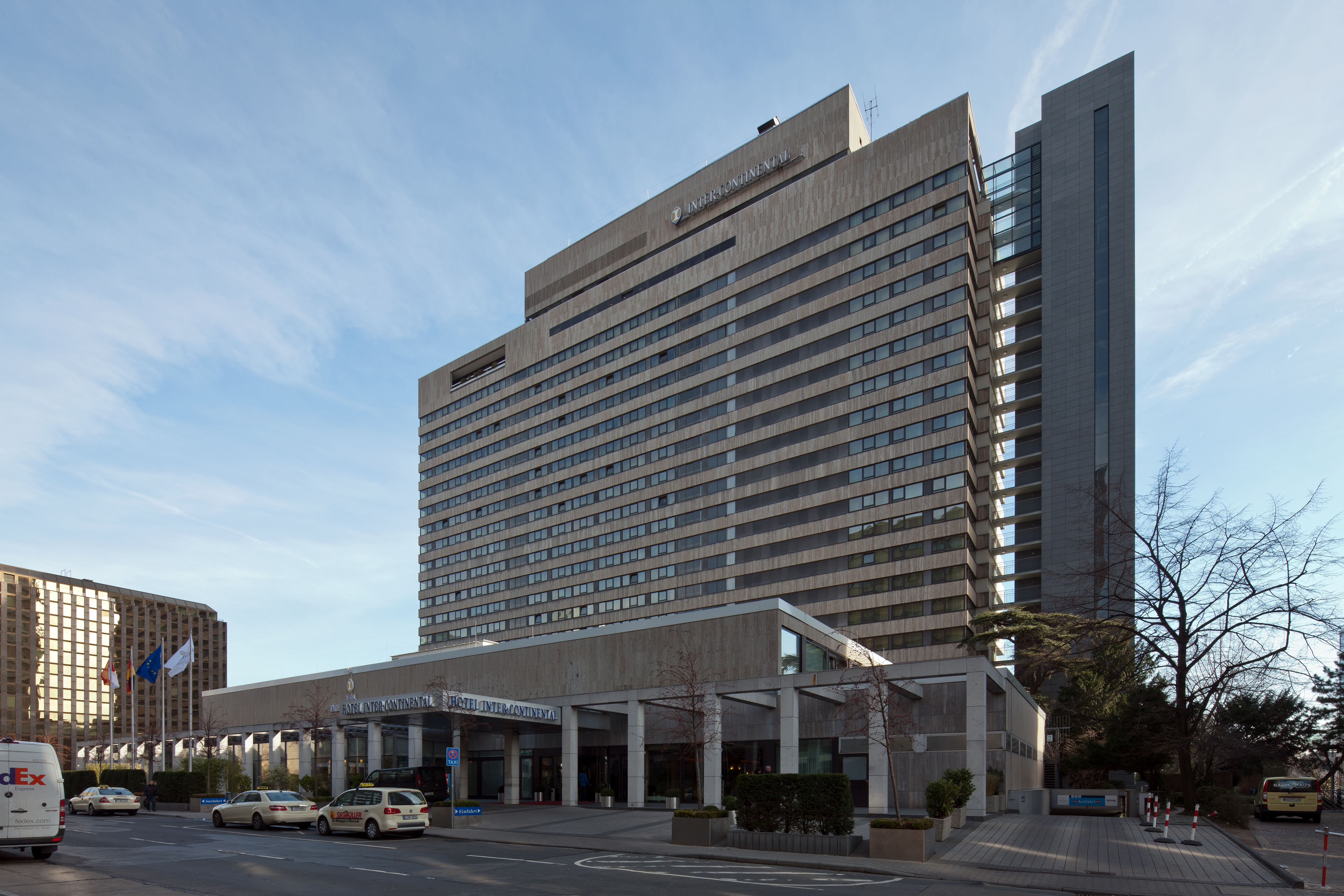 Frankfurt on the Main: InterContinental Frankfurt as seen from the west